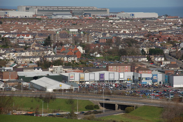 Site of former paper mill, Larne Larne had been associated with the making of paper for 100 (and more) years when the paper mill closed a few years ago. The site has now been redeveloped with shops. The Harbour Highway crosses near the bottom of the photo and the FG Wilson factory can be seen at the top.